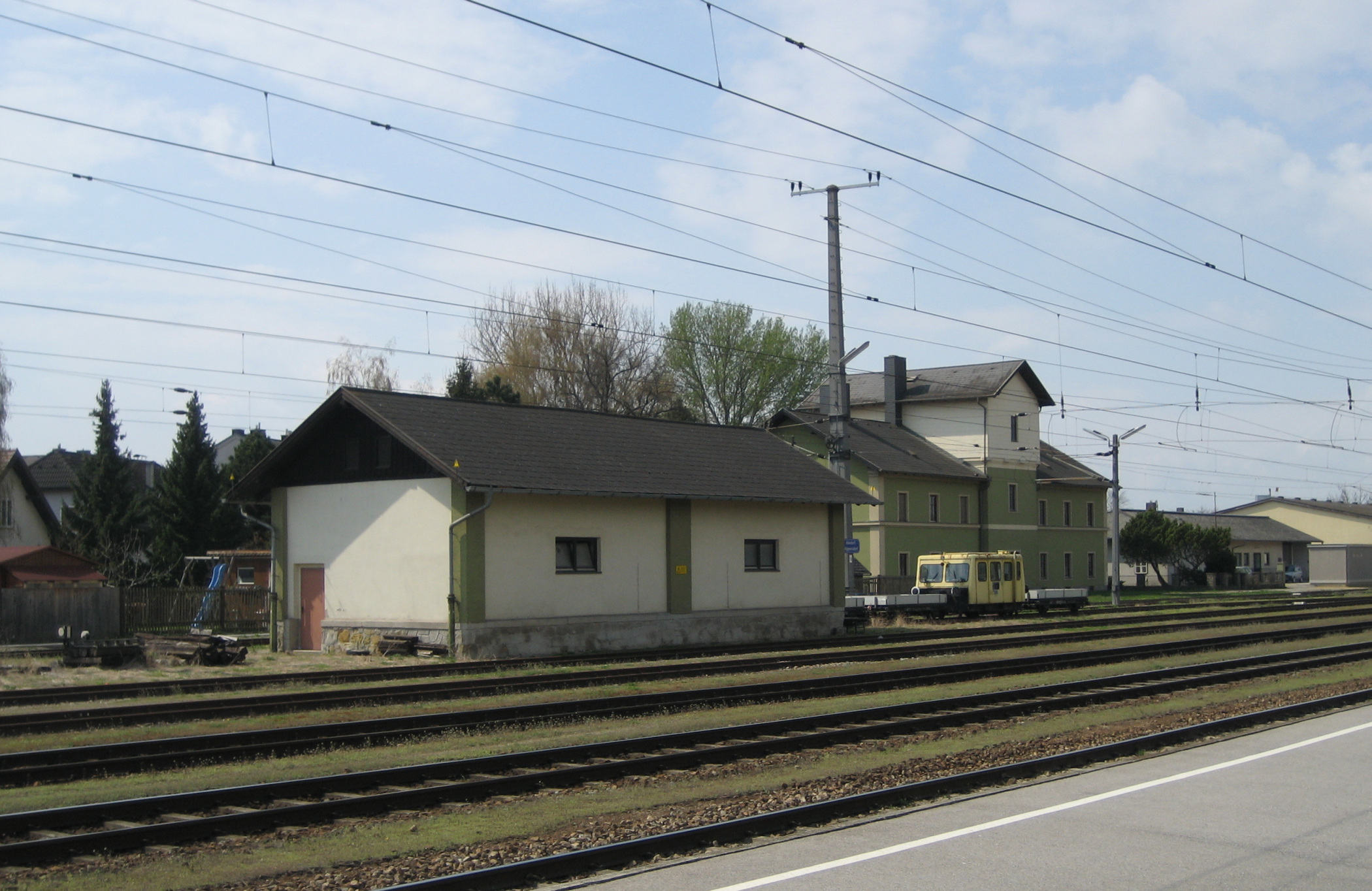 train station Absdorf-Hippersdorf in Lower Austria